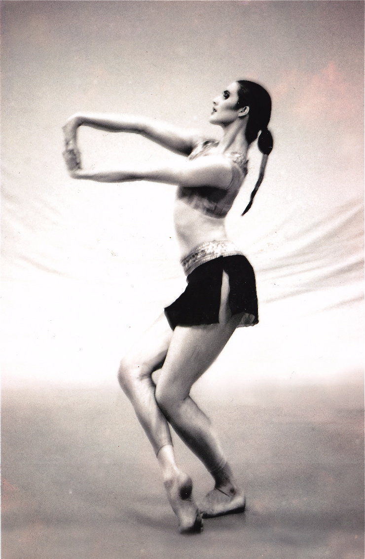 Babies of Babel